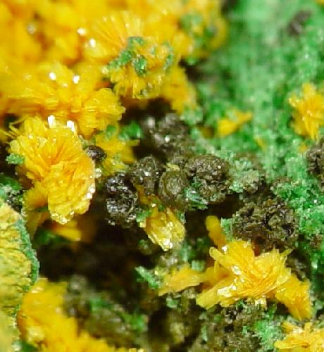 Malachite, Tyuyamunite Locality: Musonoi Mine, Kolwezi, Western area, Katanga Copper Crescent, Katanga (Shaba), Democratic Republic of Congo (Zaïre) (Locality at ) Size: small cabinet, 8.9 x 8.7 x 8.1 cm Tyuyamunite and Malachite Beautiful, sharp sub-mm crystals of Tyuyamunite richly cover a carpet of underlaying velvety malachite, making this one of the richest AND most pretty examples of the species I have seen on the market. The display area is 5 x 5 cm, on matrix. Though small by some standards, the crystals are actually rather large and sharp for the species and leap out under a loupe.